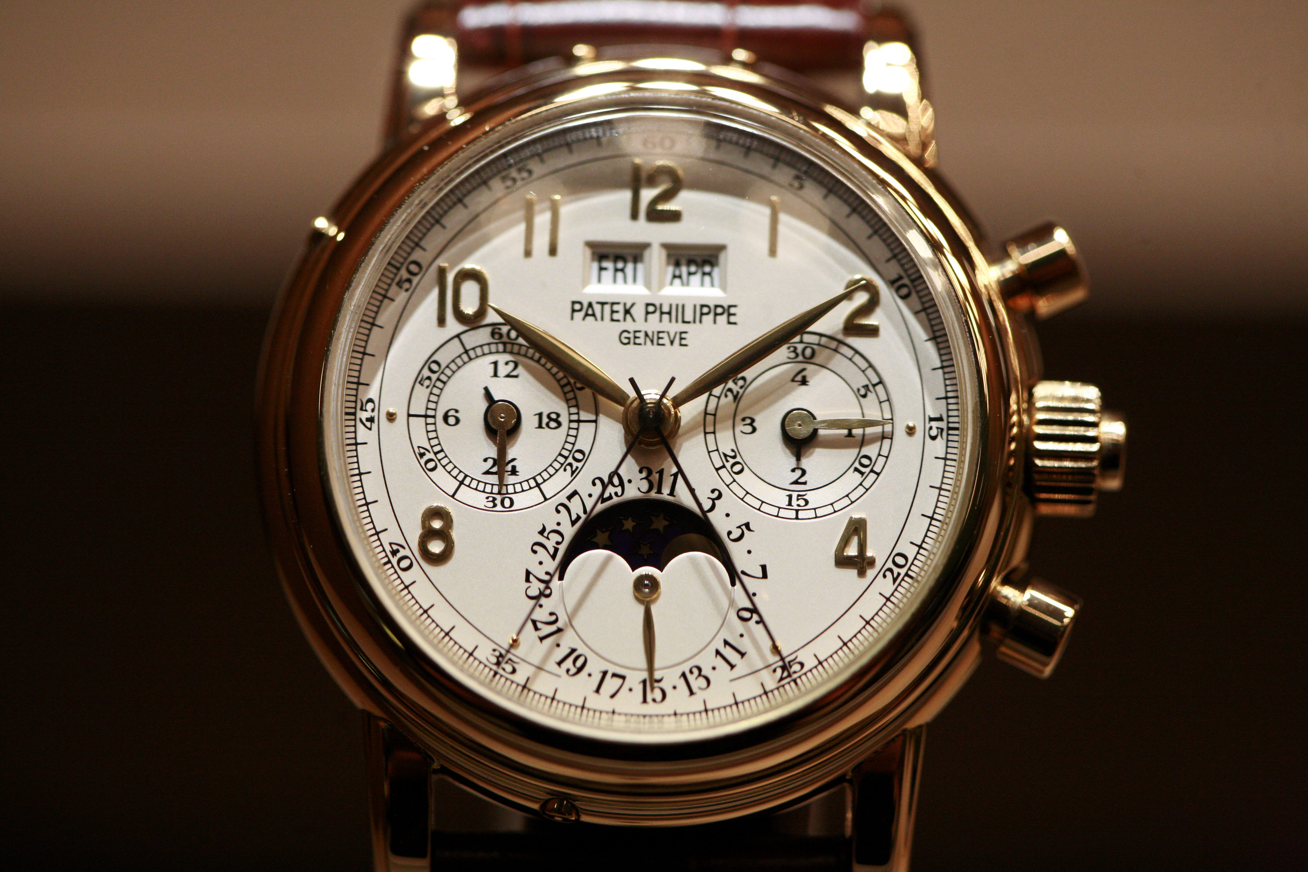 Patek Philippe & Co. watch